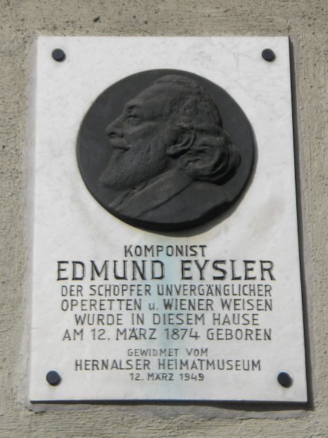 Memorial plaque to Edmund Eysler at Thelemangasse 8 in Hernals, Vienna. This is also where the author Frederic Morton grew up.